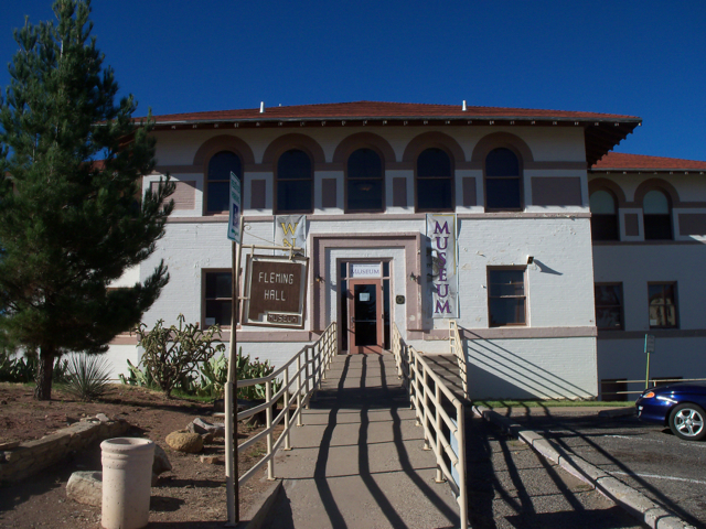 Fleming Hall, 10th St. northeast of Bowden Hall on the Western New Mexico University campus Silver City